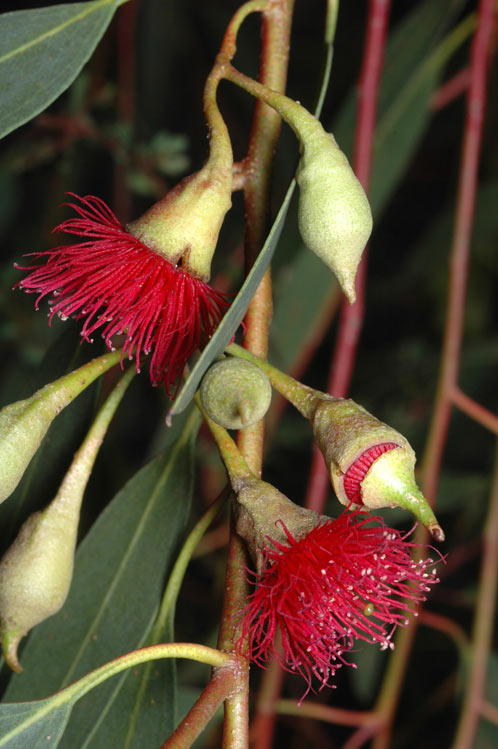 Flower buds and red flowers of Eucalyptus petiolaris in the Australian National Botanic Gardens